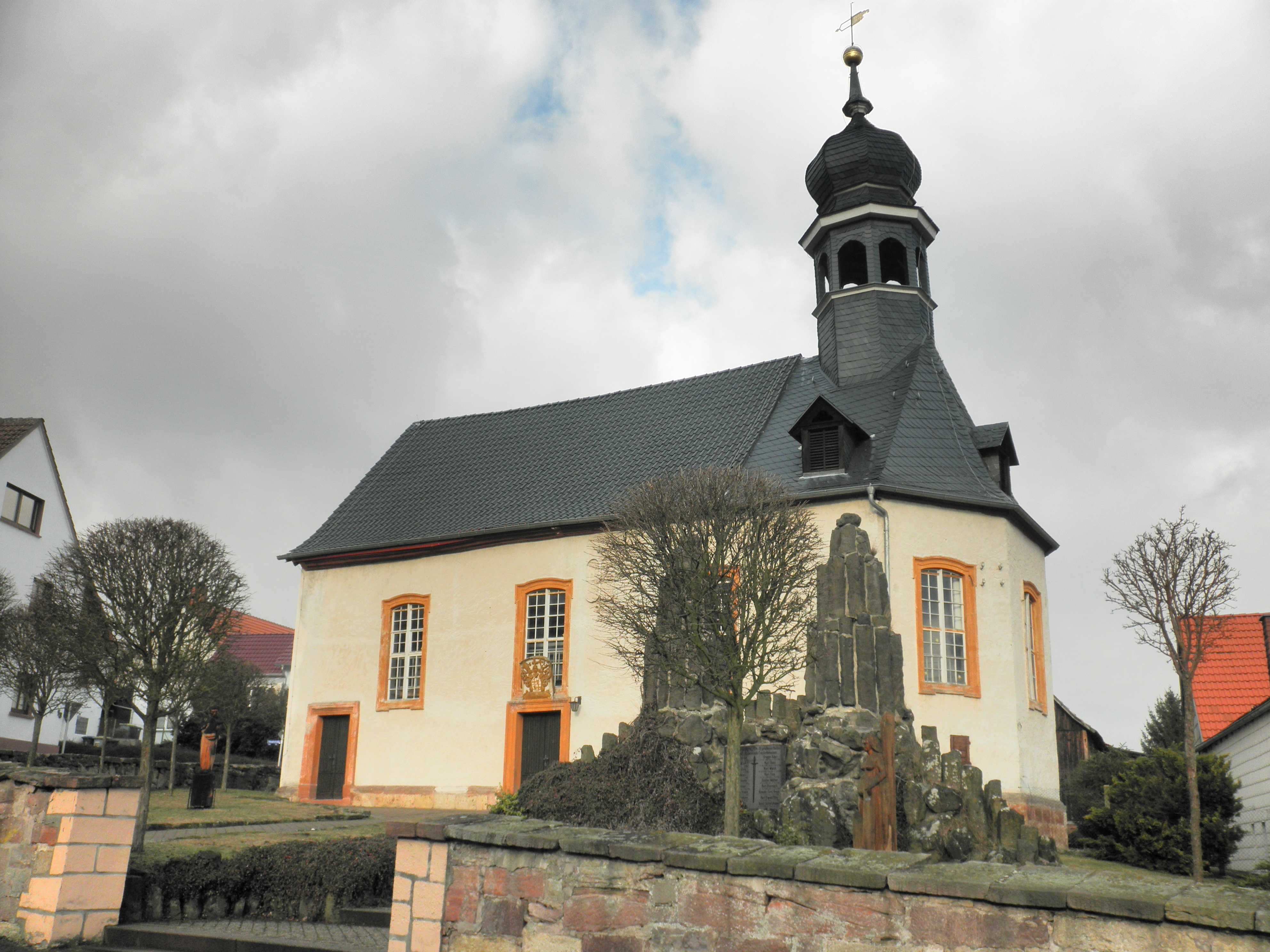 Church in Empfertshausen in Thuringia